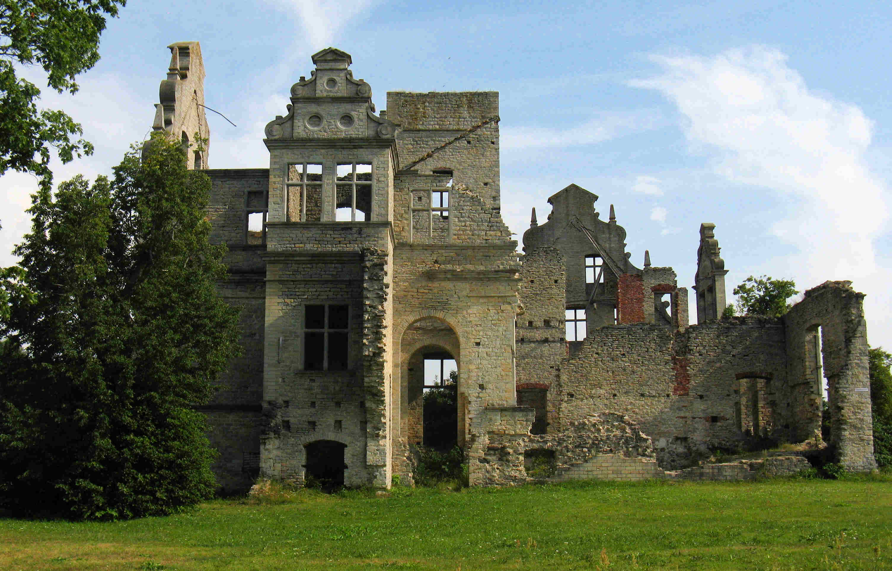 Ungru manor, Haapsalu, Estonia, eastern facade